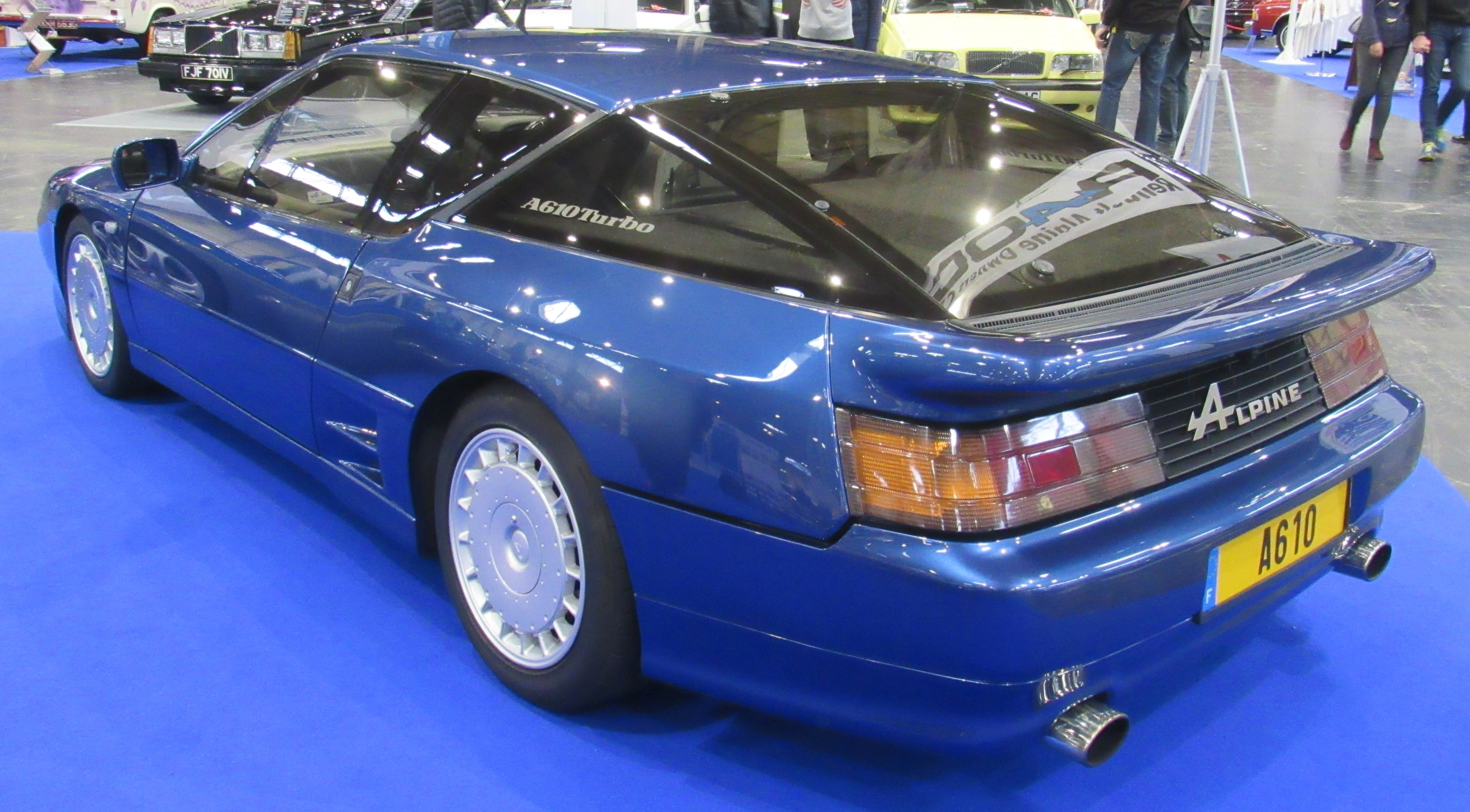 1992 Alpine A610 Turbo 3.0 Taken at the NEC Classic Motor Show 2017